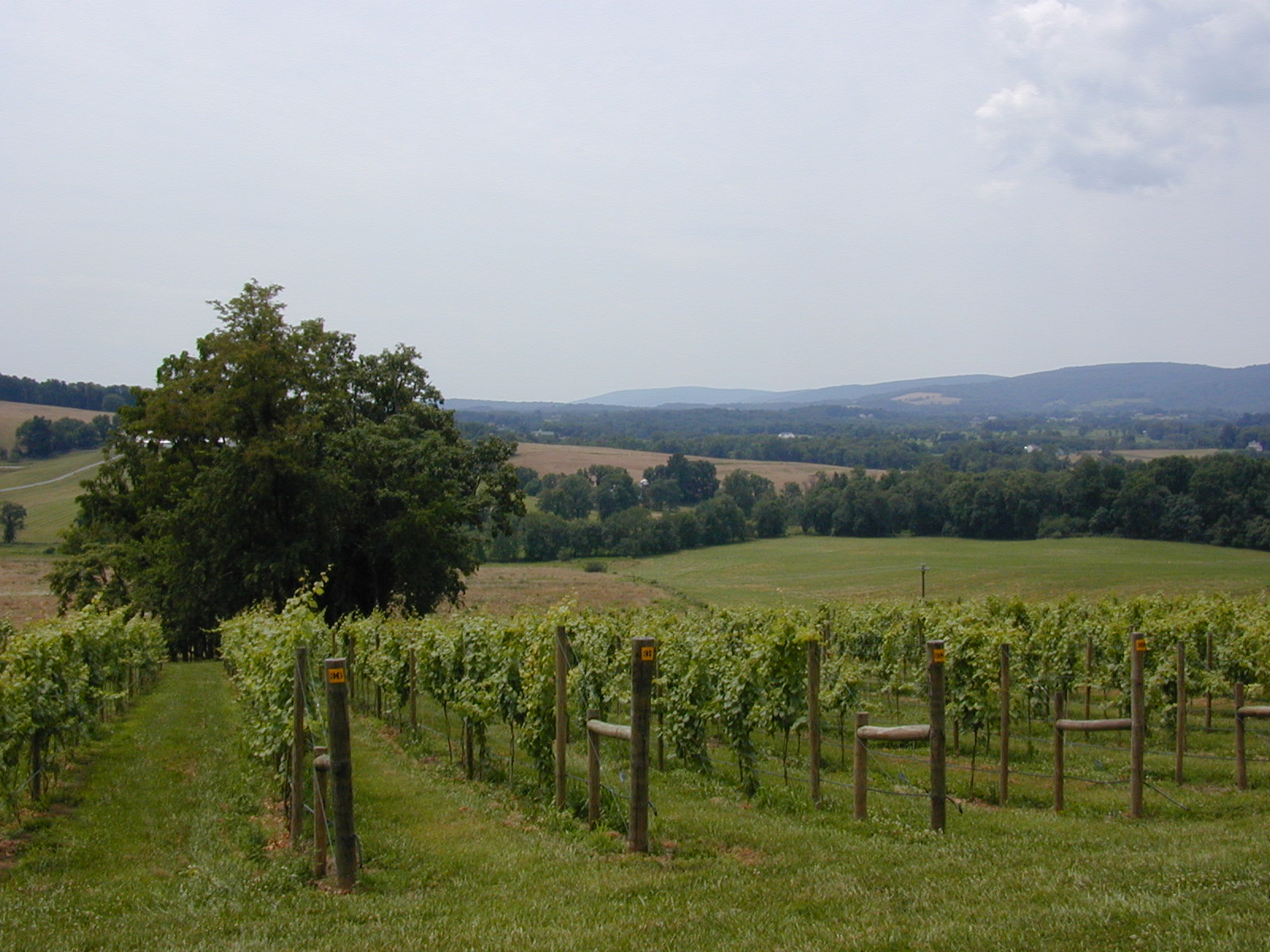 Northern Virginia Vineyard